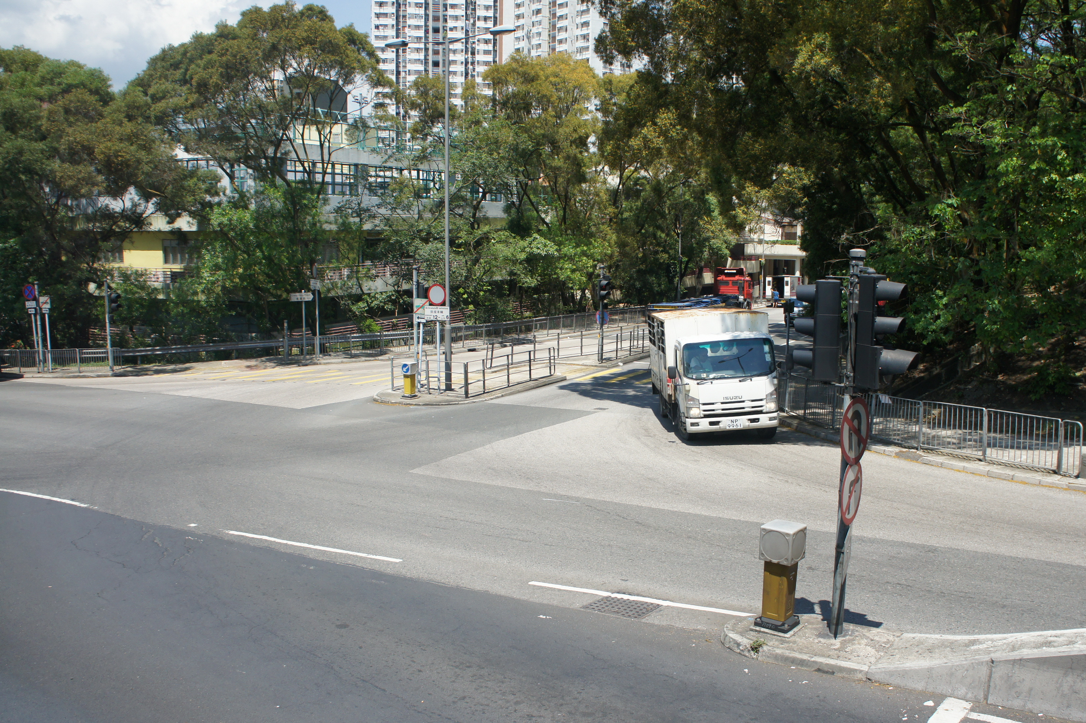 Tsing Yi Road West at Ching Hong Road, Tsing Yi, Hong Kong.